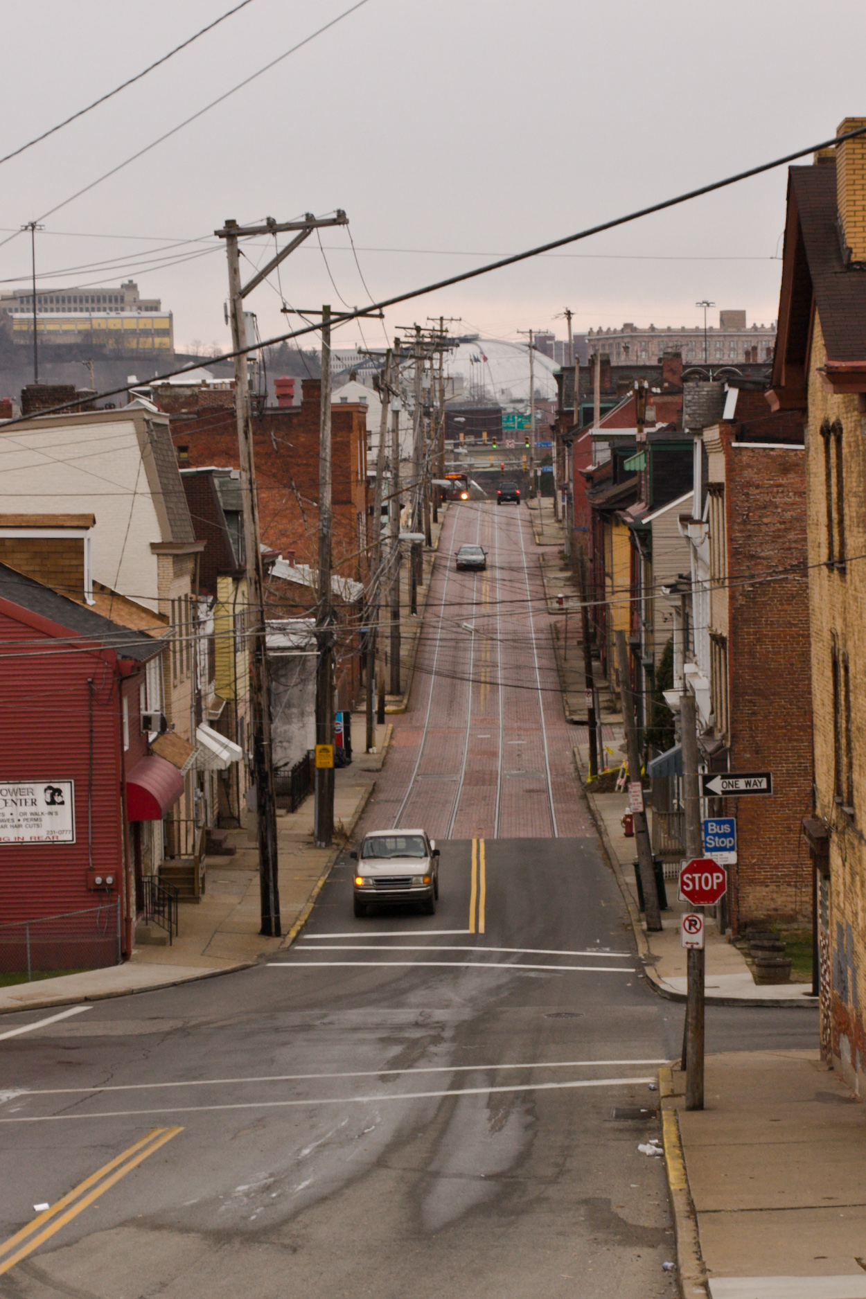 Looking South down Chestnut st. in East Allegheny, Pittsburgh in 2008. Pittsburgh Railways streetcar tracks are visible in the road; the 16th street bridge, downtown, and Mellon Arena are visible in the background.